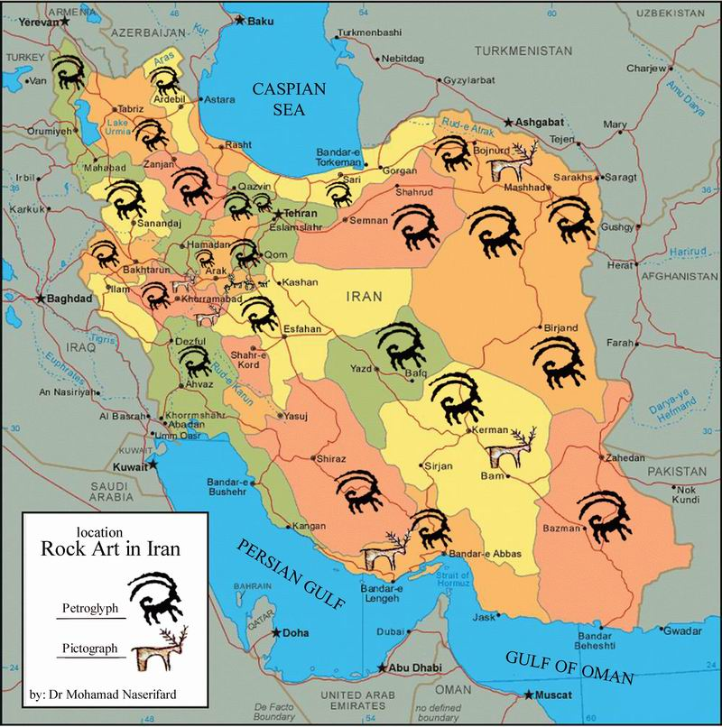 iran rock arts